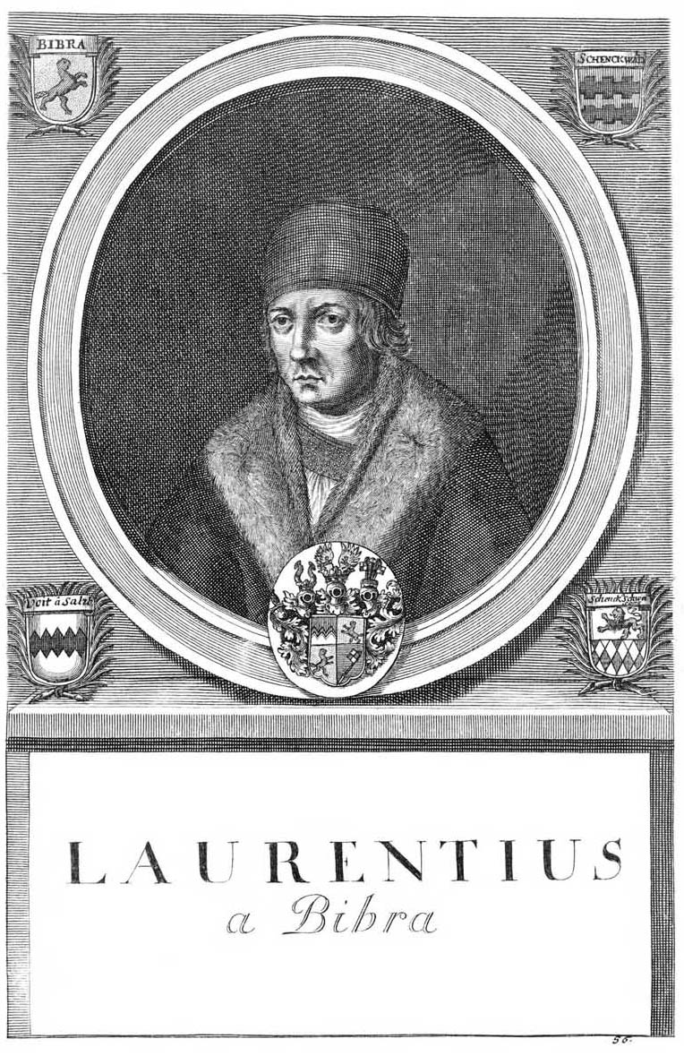 scan of print of Lorenz von Bibra, prince-bishop of Wuerzburg, two or three versions with different material around same portrait